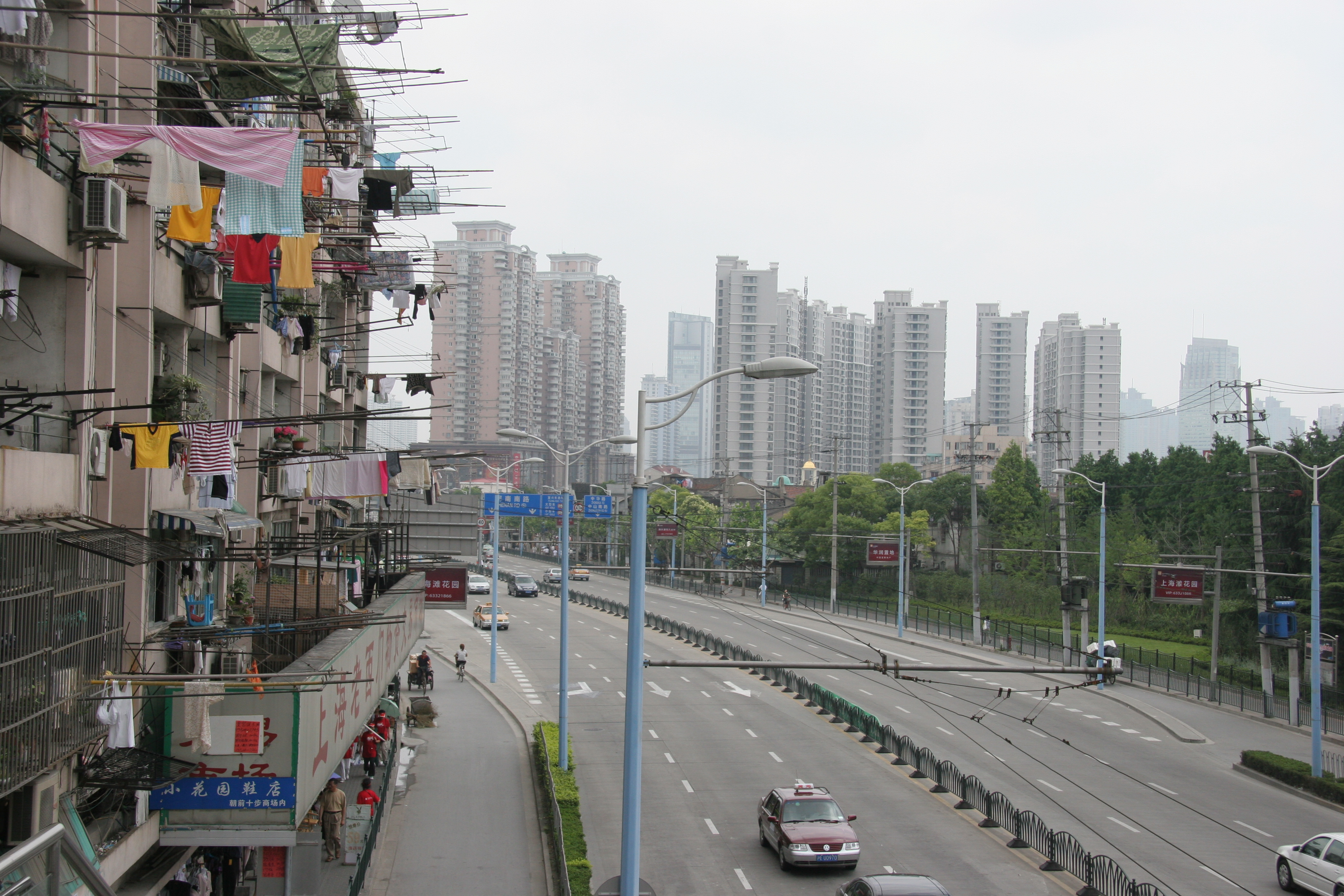 Shanghai unsorted